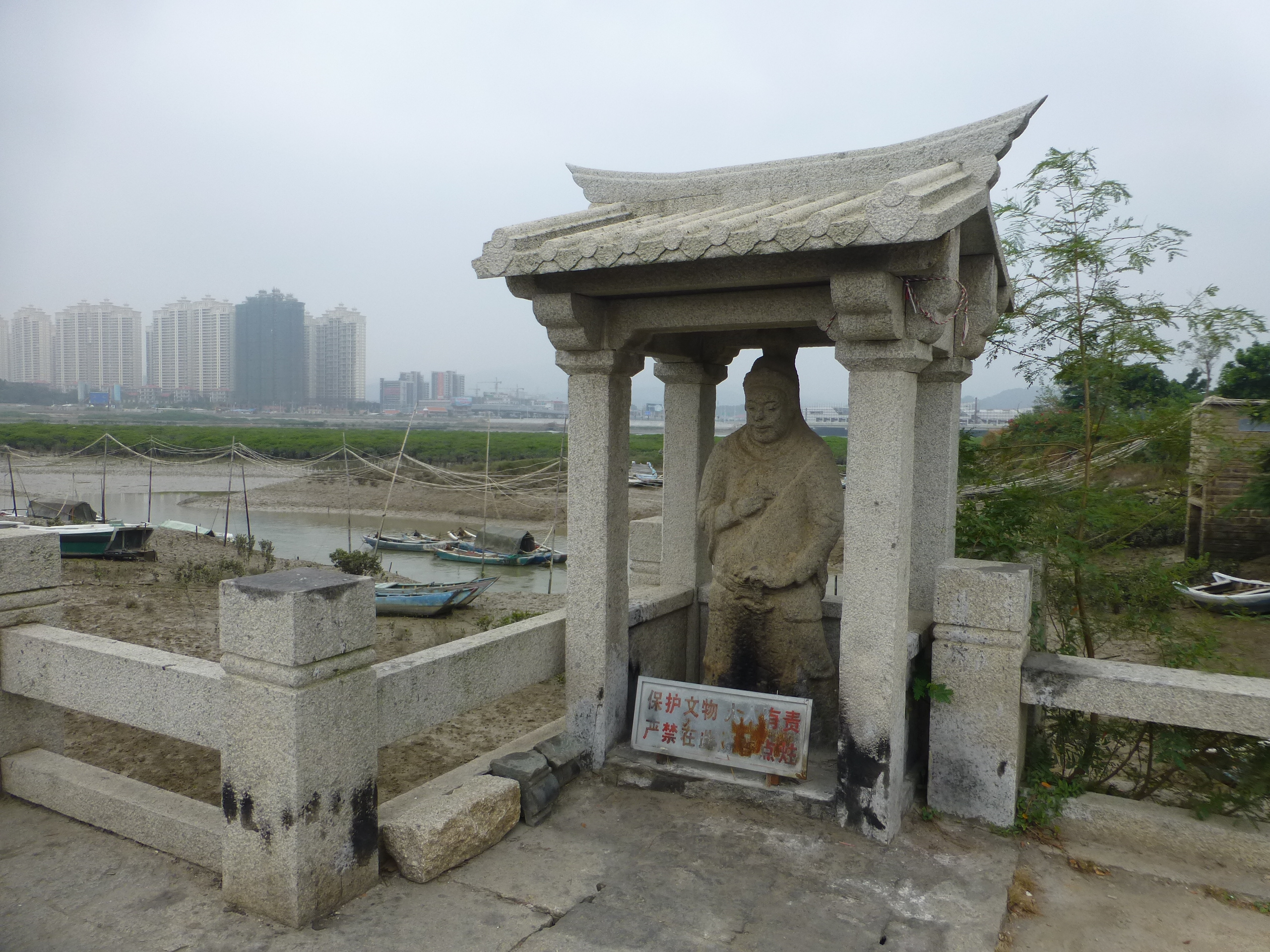 Luoyang Bridge and its surroundings, Hui'an County, Fujian.